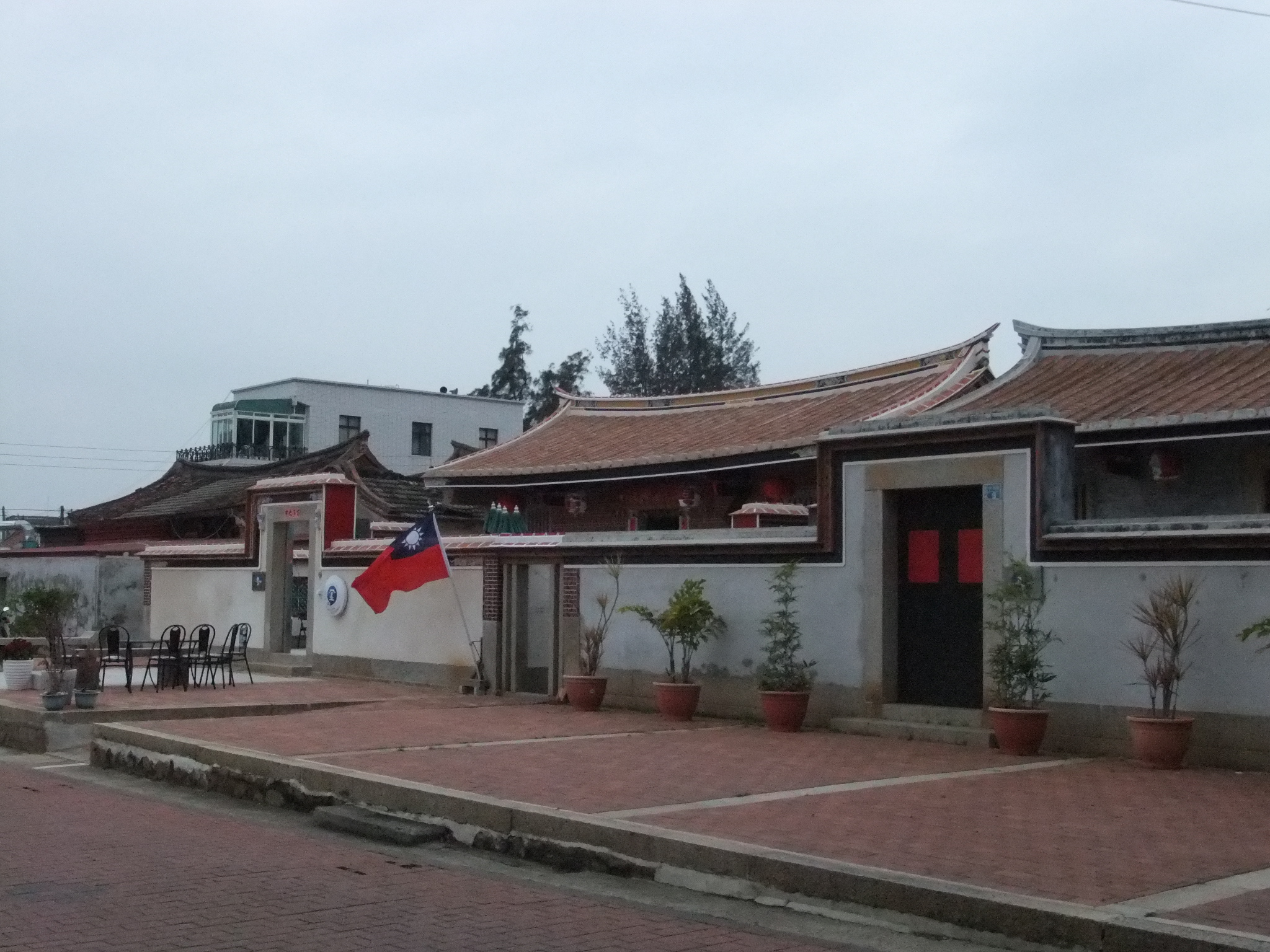 Traditional houses in Shuitou Village, Kinmen.